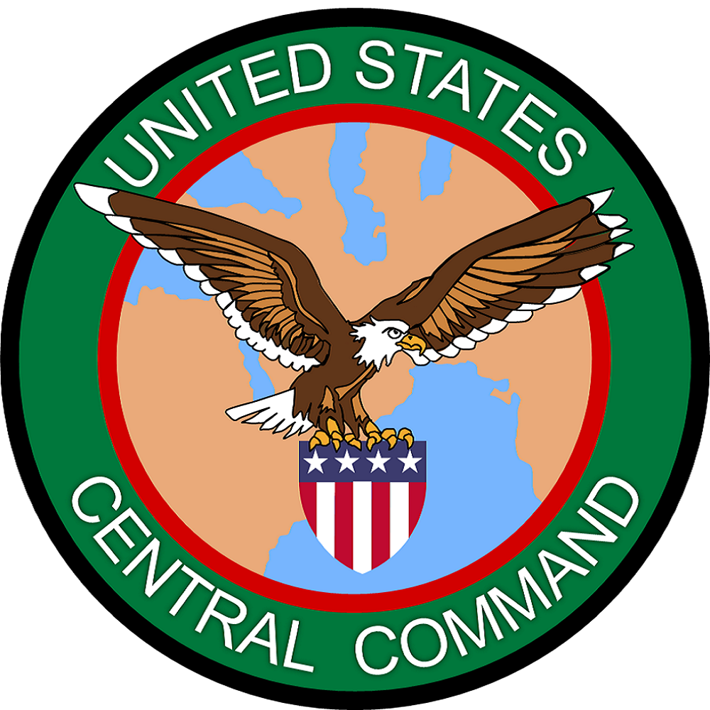 The Official CENTCOM Seal